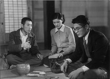 Isao Kimura,Yōko Sugi and Eiji Okada in 1952 Japanese movie Yamabiko Gakkou (Echo School).